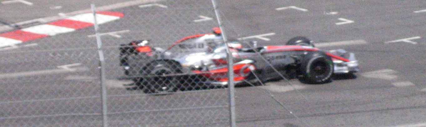 Alnso at Monaco Grand Prix